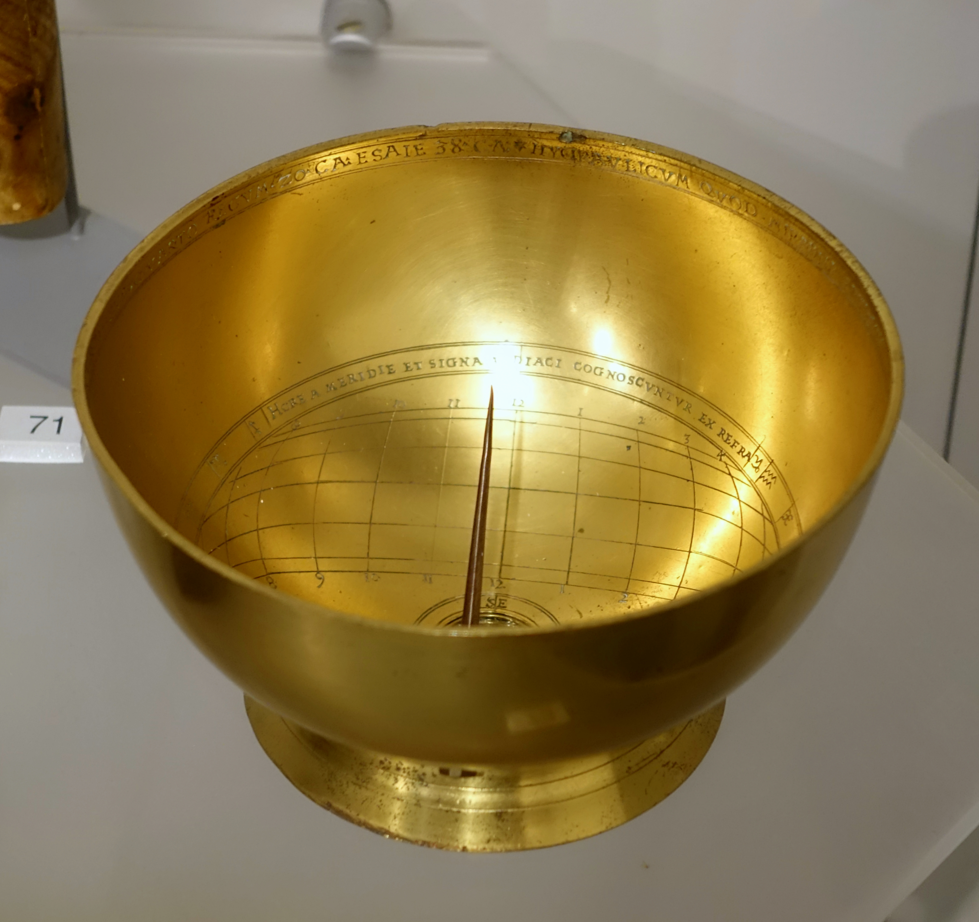 Exhibit in the Putnam Gallery - Harvard University - Cambridge, Massachusetts, USA.